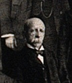 Fellows of the Royal College of Surgeons of Edinburgh. Iconographic Collections Keywords: John Baptiste de Medina; Barclay Bros.; Royal College of Surgeons of Edinburgh.